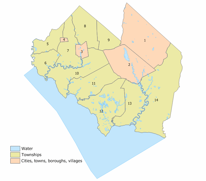 Cumberland County, New Jersey Municipalities